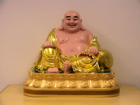 Photo of Maitreya Bodhisattva mini statue placed in IBPS Sweden temple, Rosersberg, Sigtuna kommun IBPS Sweden. Photo taken in 2003 by Stefan Gagner